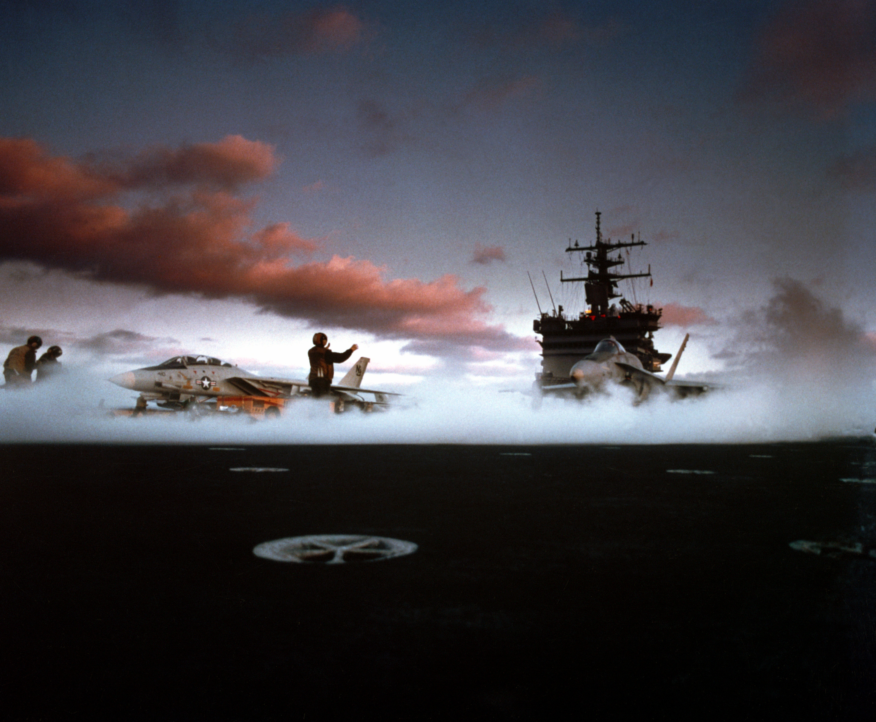 An F-14 tomcat fighter aircraft (left) and an F/A-18 Hornet fighter aircraft are readied for catapult launch from the nuclear-powered aircraft carrier USS ENTERPRISE (CVN-65).